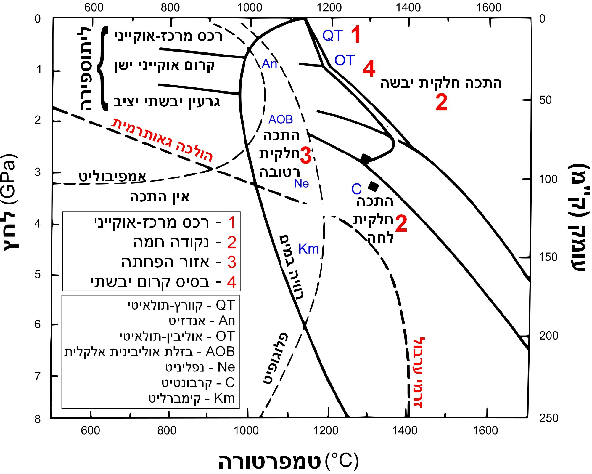 Rock Melting Diagram, Hebrew